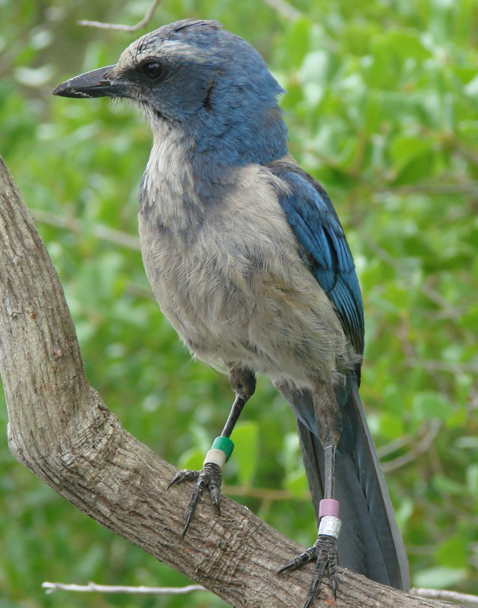 An adult Florida Scrub Jay (Aphelocoma coerulescens) at Lyonia Preserve.